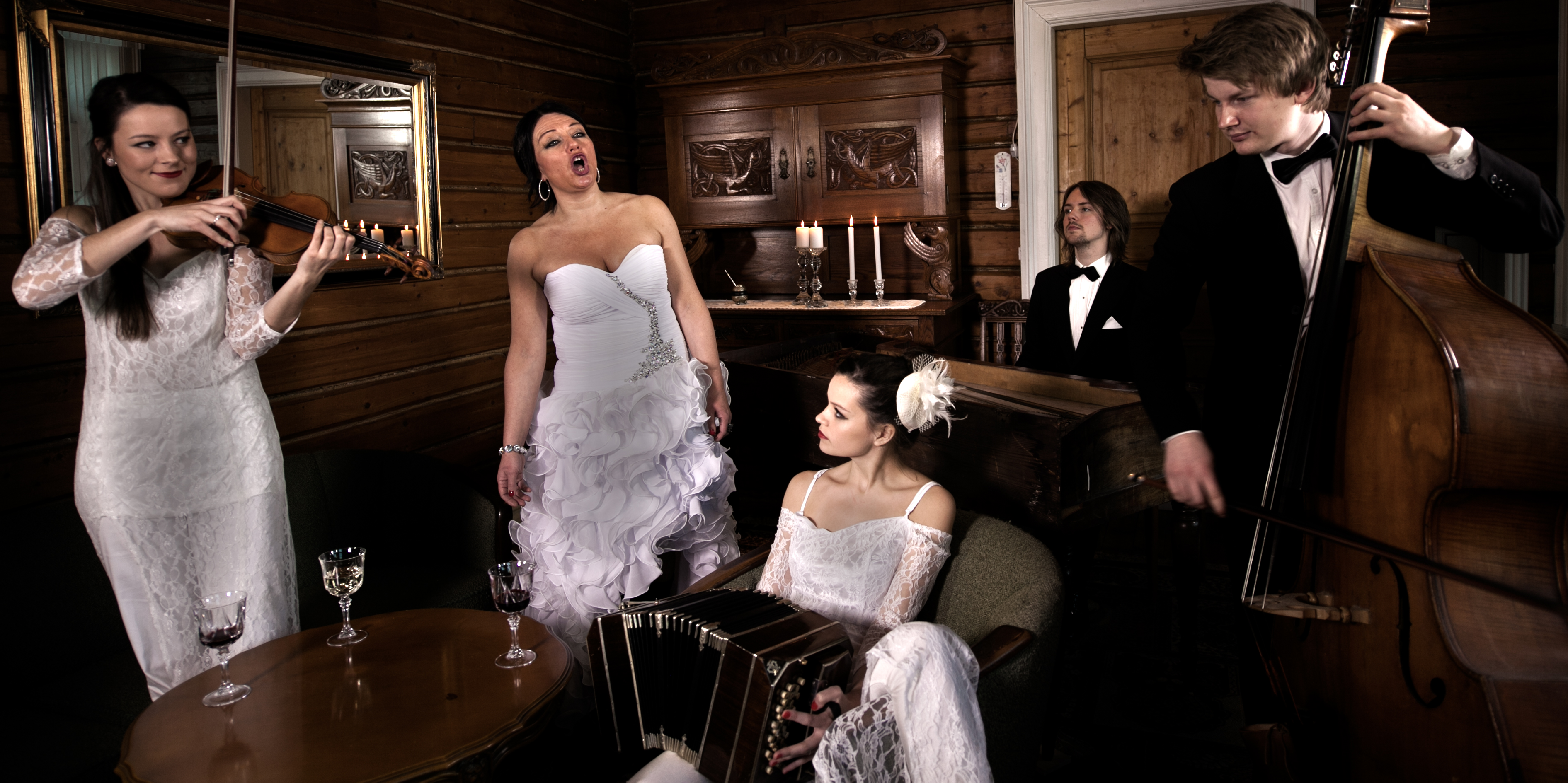 Los Osos Polares (2012)